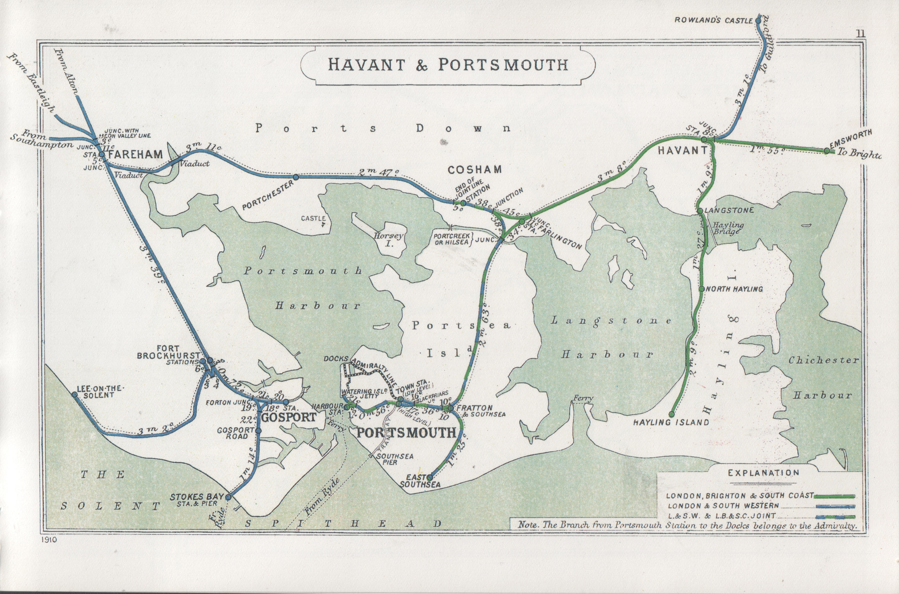 Pre Grouping railway junction around Havant & Portsmouth